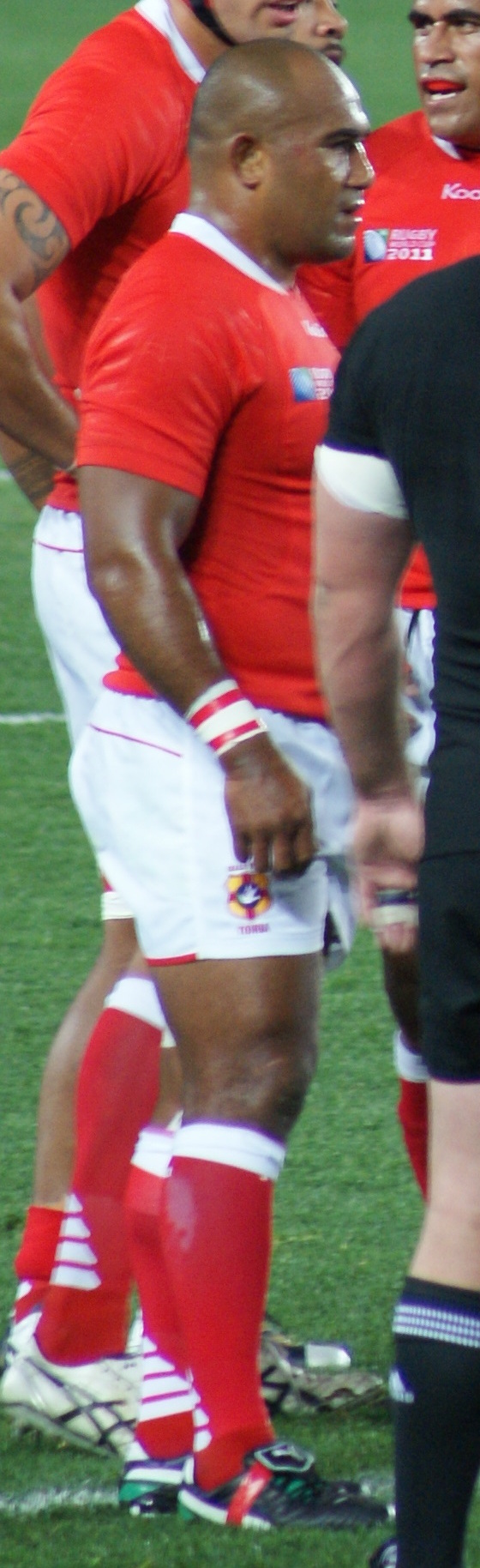 Opening match between New Zealand and Tonga during 2011 Rugby World Cup in New Zealand.